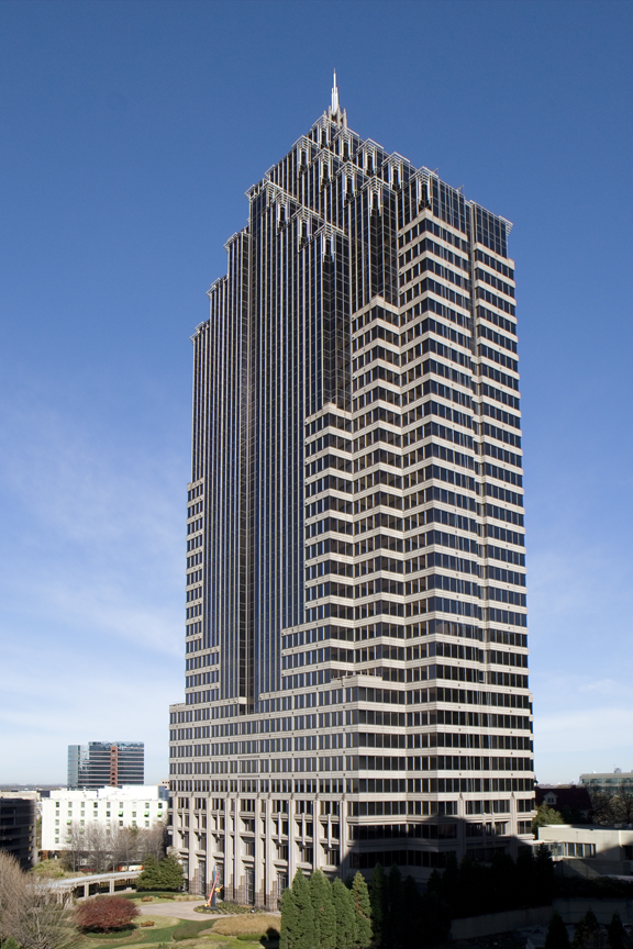 The Prominade II in Midtyown, Atlanta, Georgia